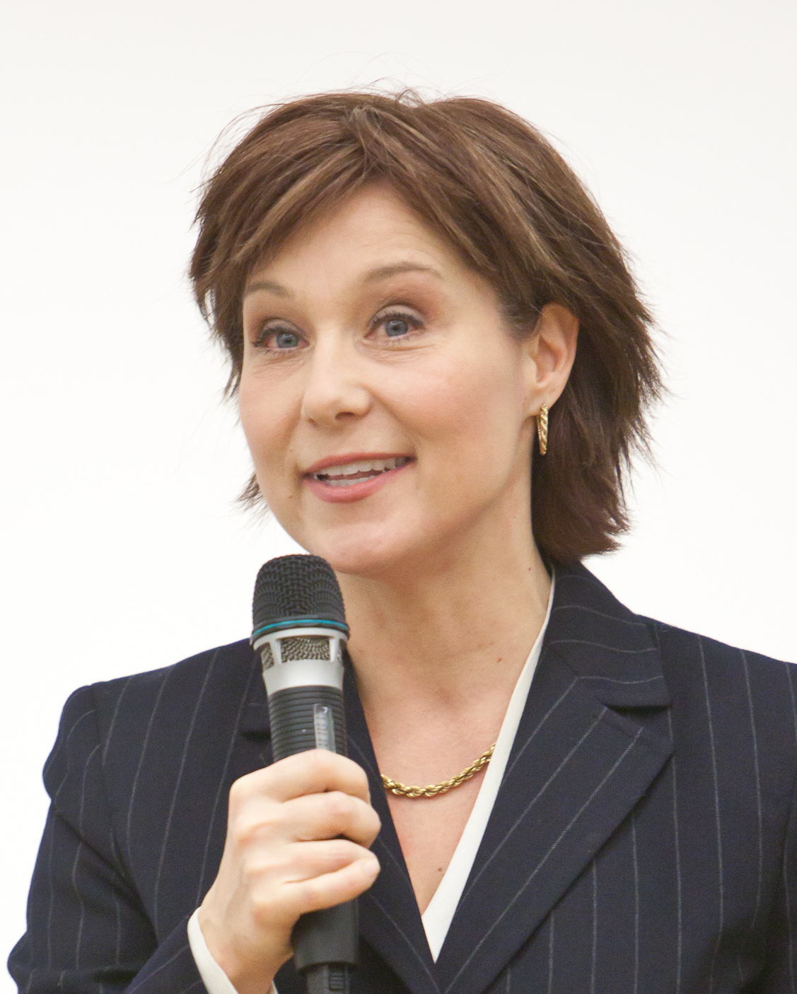 BC Liberal party leadership candidate Christy Clark addresses Vancouver arts & culture community at the Rennie Collection in the Wing Sang Building. Chinatown, Vancouver.